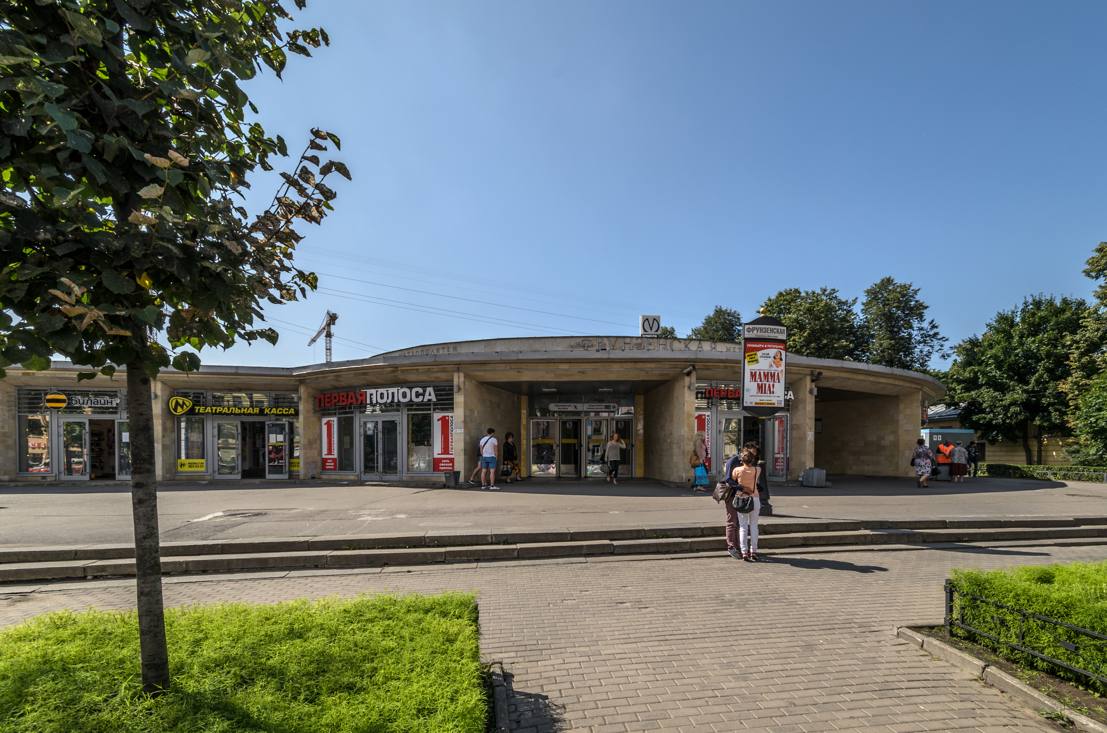 "Frunzenskaya" station of Saint Petersburg Metro, pavilion